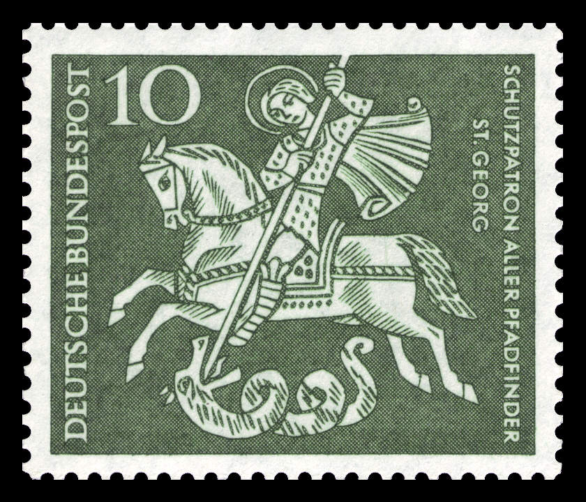 50 years scouting Graphics by Ege Ausgabepreis: 10 Pfennig First Day of Issue / Erstausgabetag: 22. April 1961 Michel-Katalog-Nr.: 346